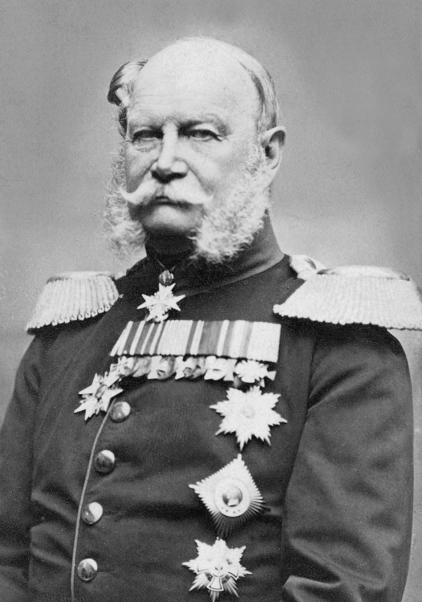 Kaiser Wilhelm I in 1857.